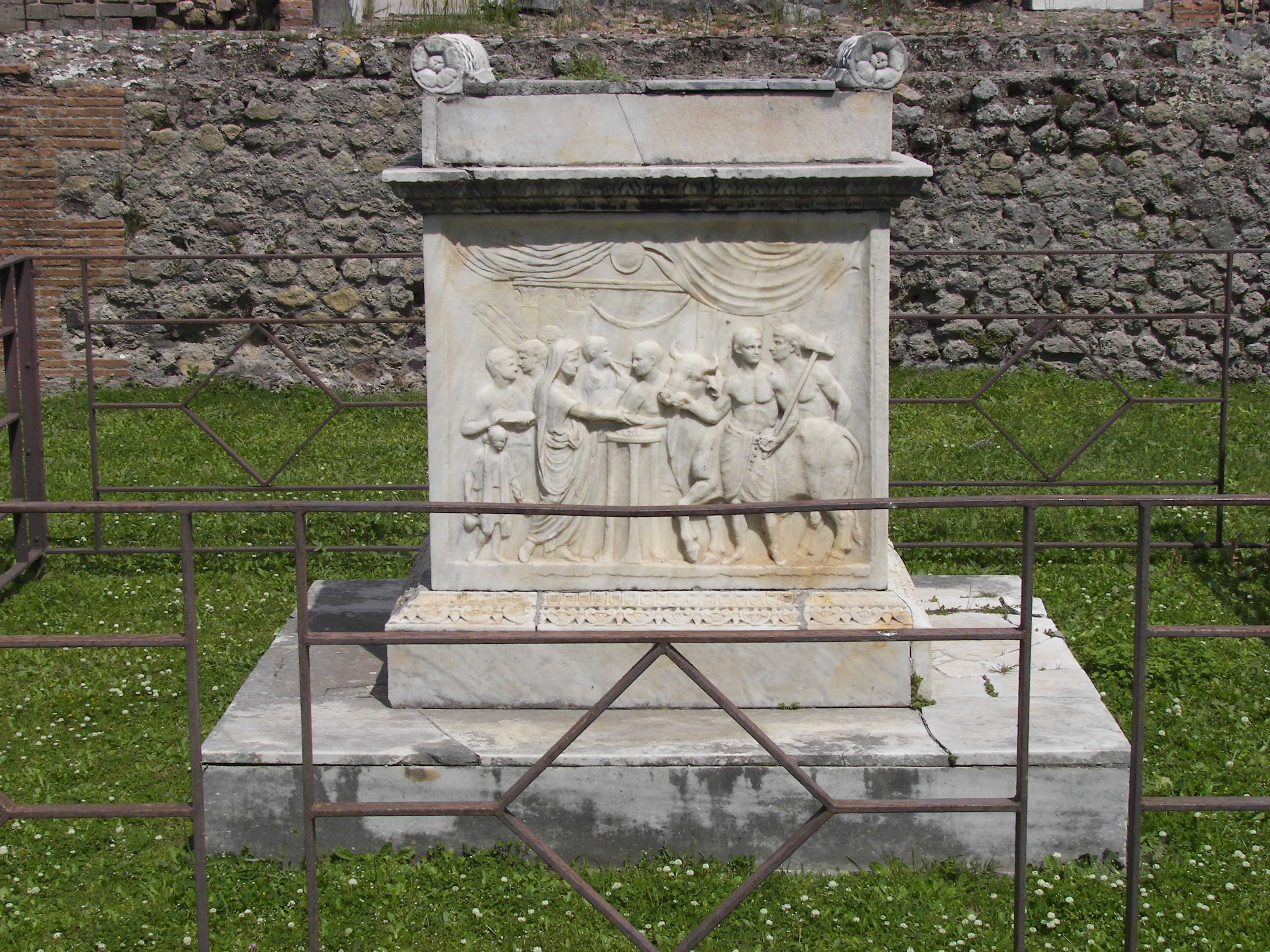 Altar for the Temple of Vespasian in the main forum in Pompeii.